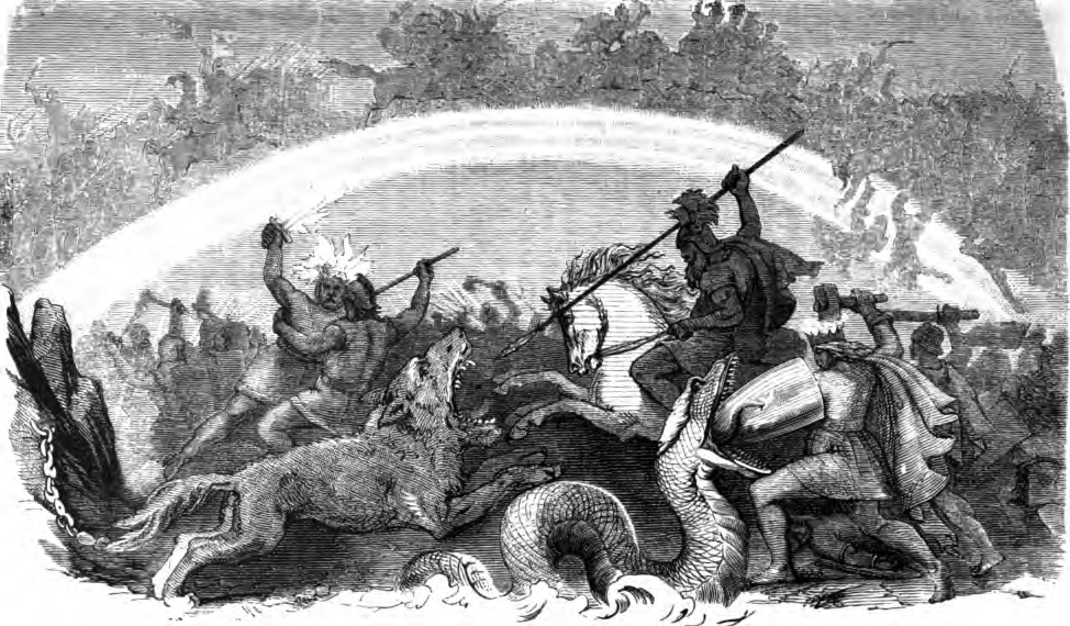 Captioned as "Kampf der untergehenden Götter ". "Battle of the Doomed Gods". Ragnarök occurs: Odin holds rides to battle and aims his spear towards the gaping mouth of the wolf Fenrir, Thor defends against the serpent Jörmungandr with a shield while wielding his hammer Mjöllnir, Freyr and the flaming Surtr fight, and an immense battle goes on around and atop the rainbow bridge Bifröst behind them.